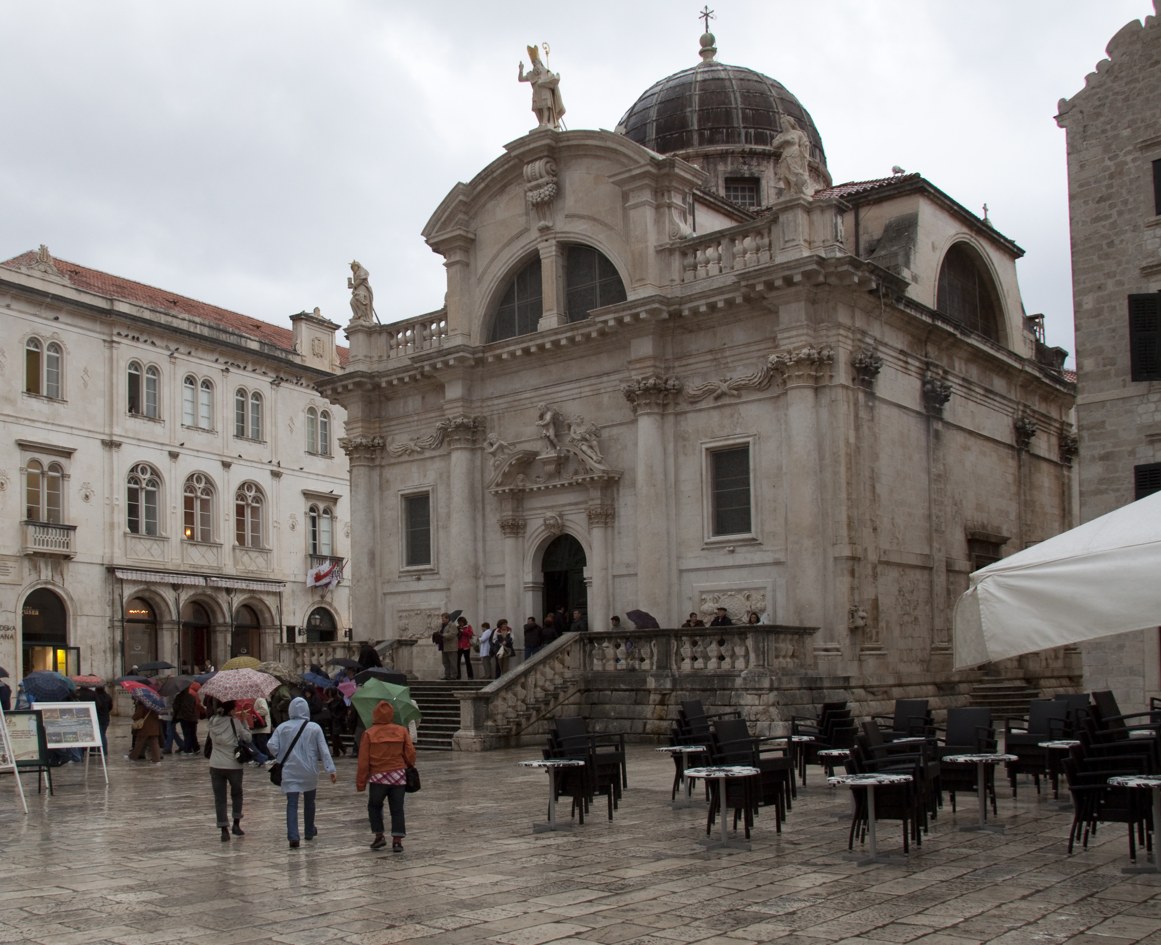 St Blaise Church Old Town Dubrovnik